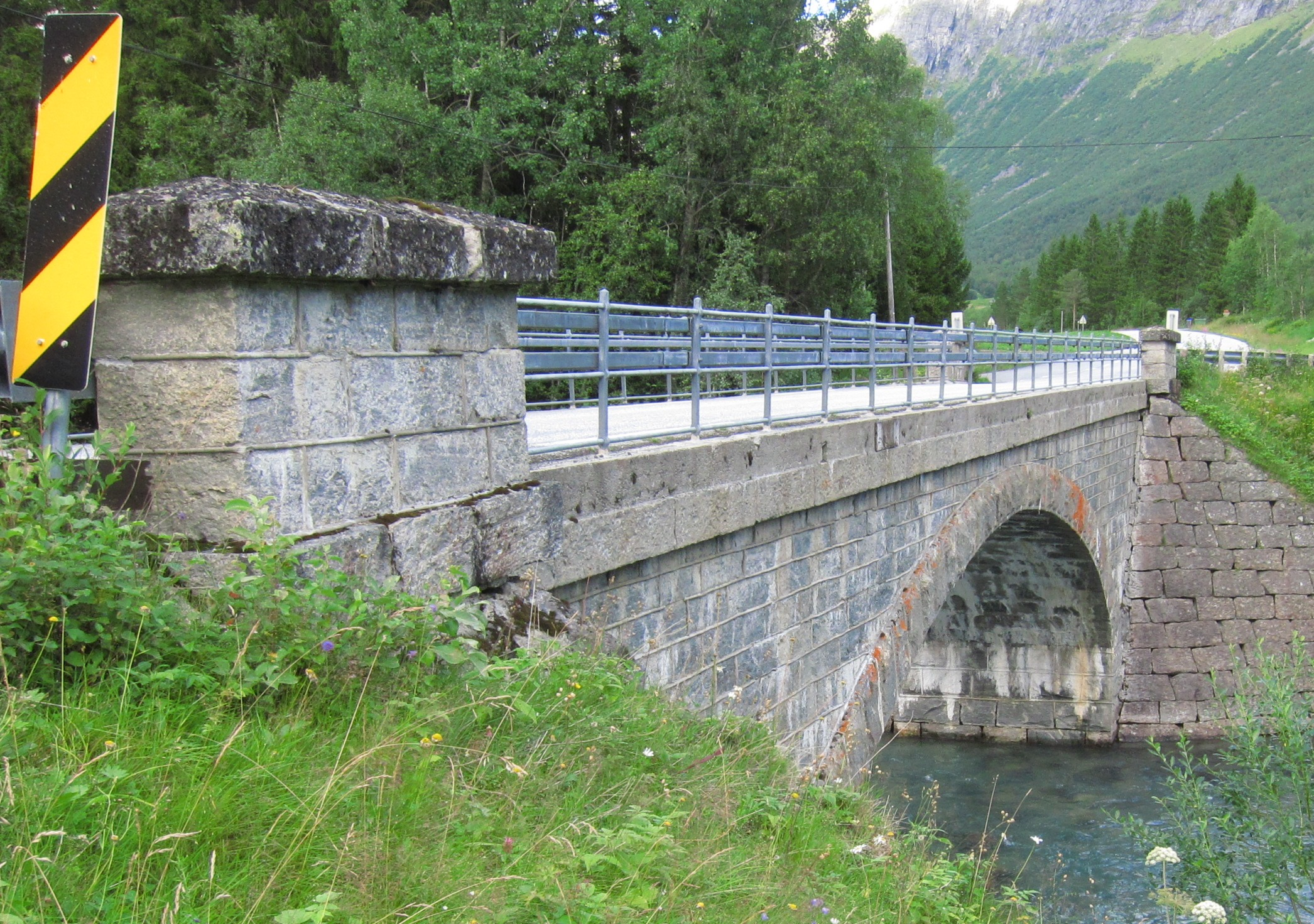 Krike bridge (built 1927) on road 63, Valldal